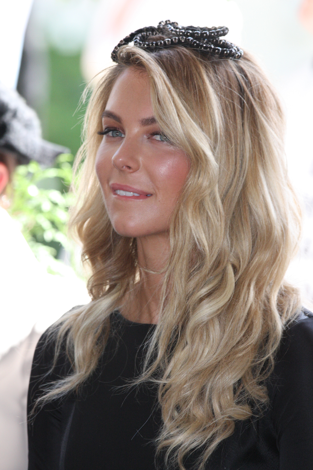 Manighar Wins BMW At Rosehill Races; Sydney's Golden Slipper Day; Celebrities Spotted